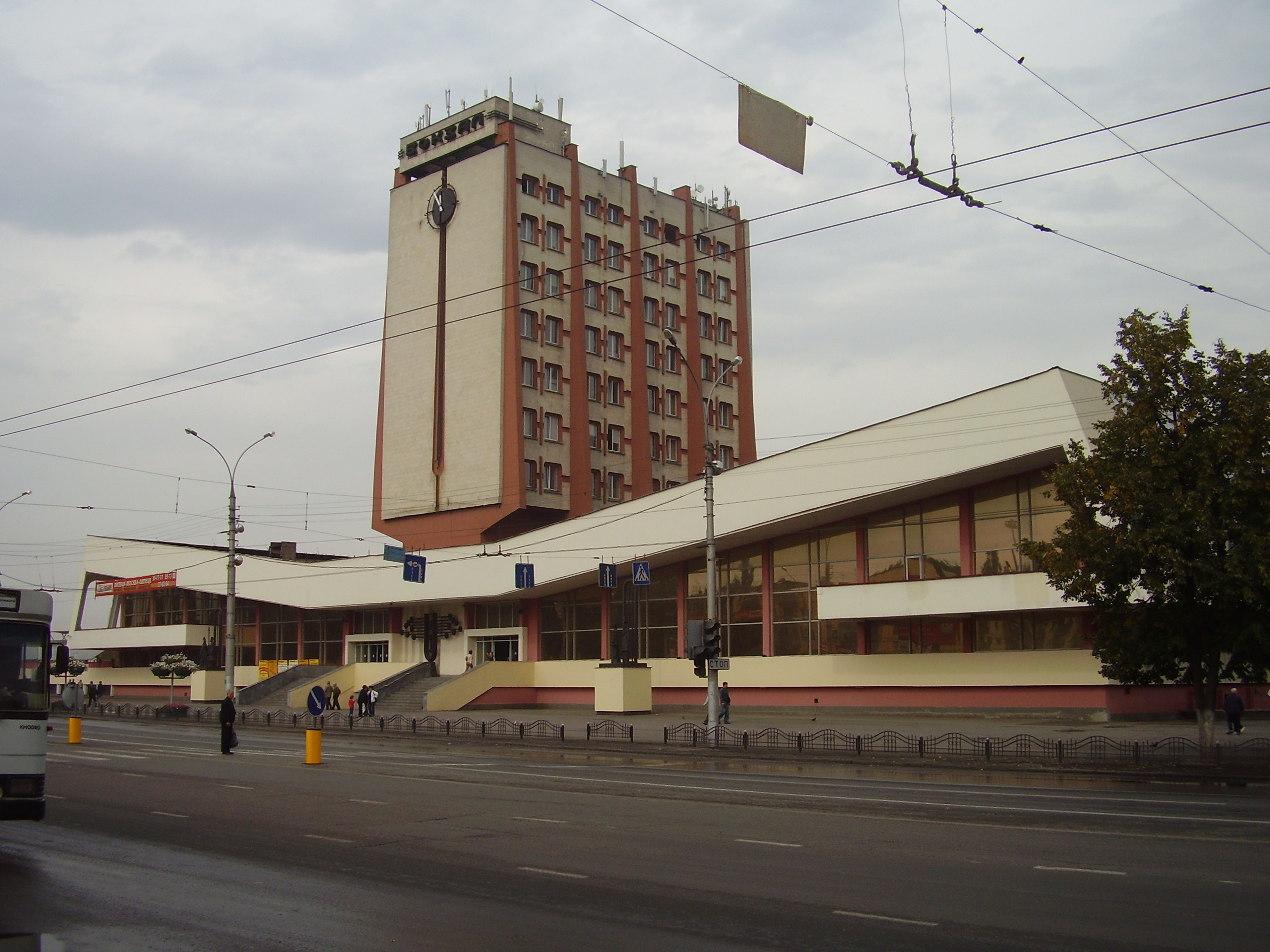 Lipetsk train station